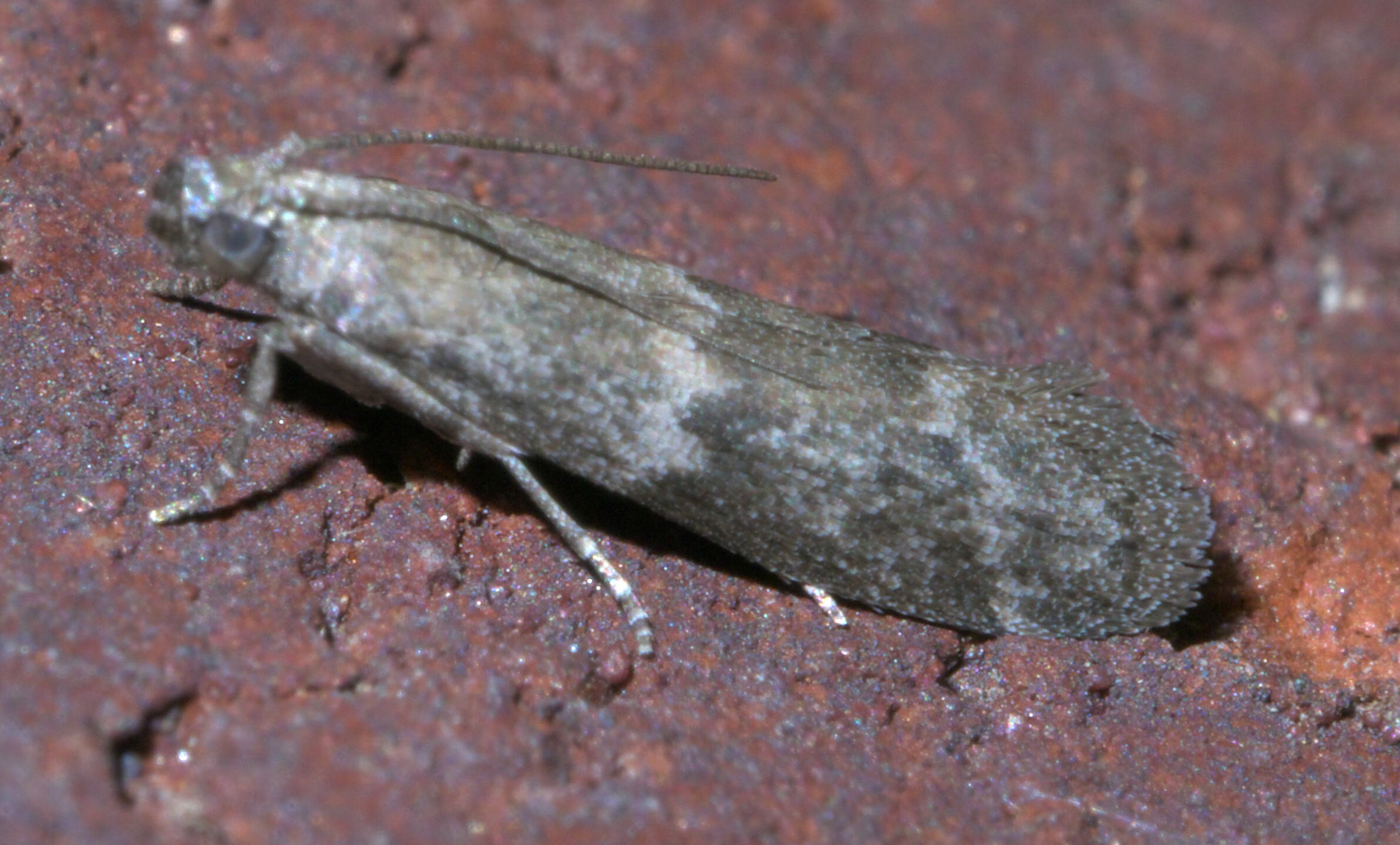 Eurythmia angulella, Hodges #6032, ID Confidence: 88